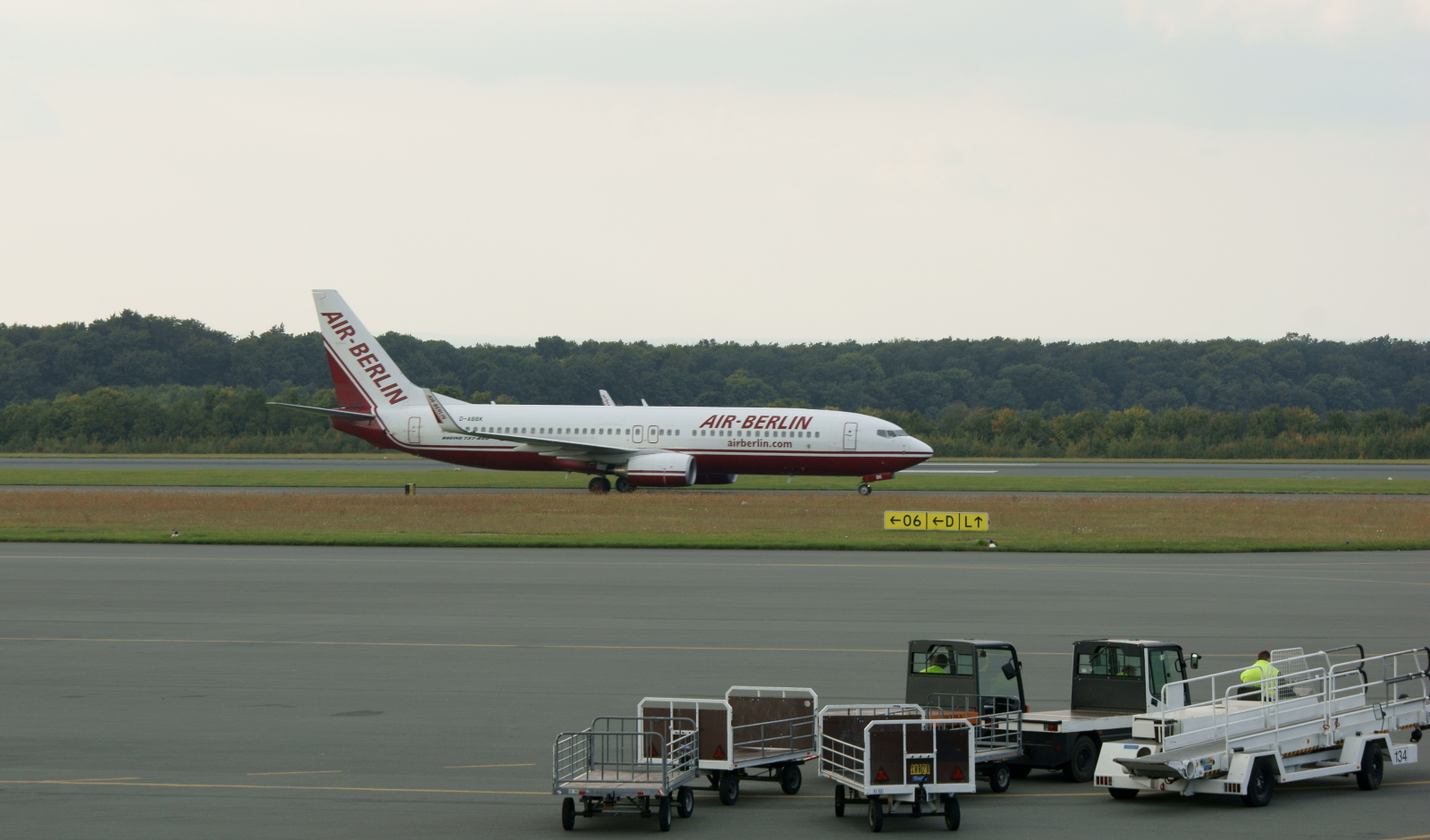 A Boeing B737-8BK of Air Berlin (D-ABBK) taxing to the gate at Paderborn/Lippstadt. You can see the waiting airport cars.